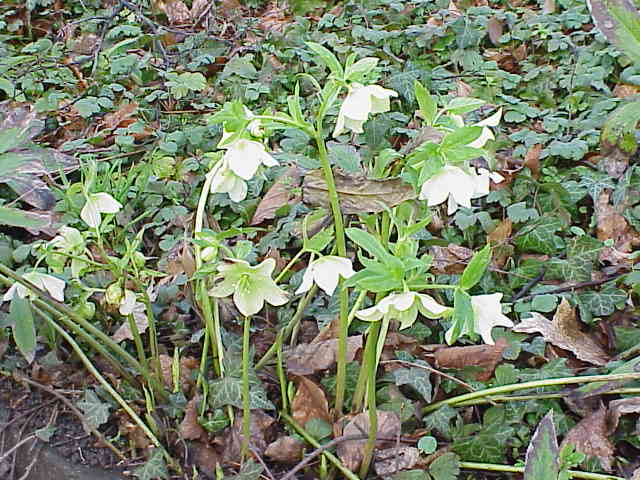 Species: Helloborus orientalis Family: Ranunculaceae Image No. 1